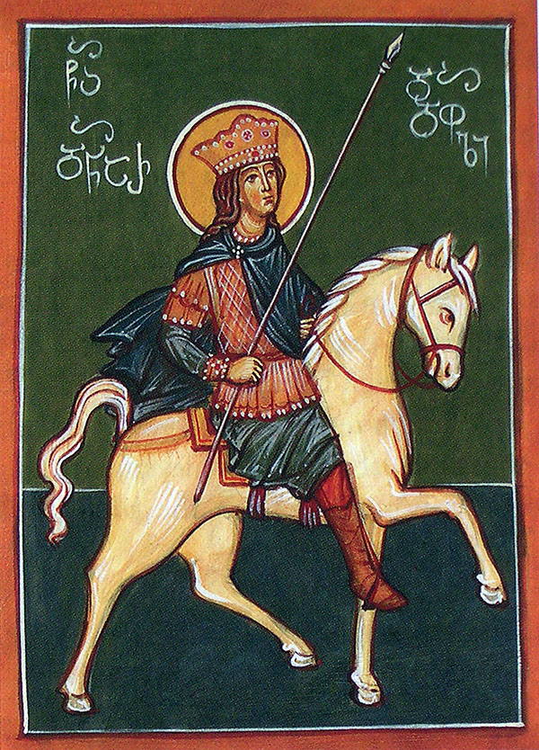 წმინდა დინარა დედოფალი